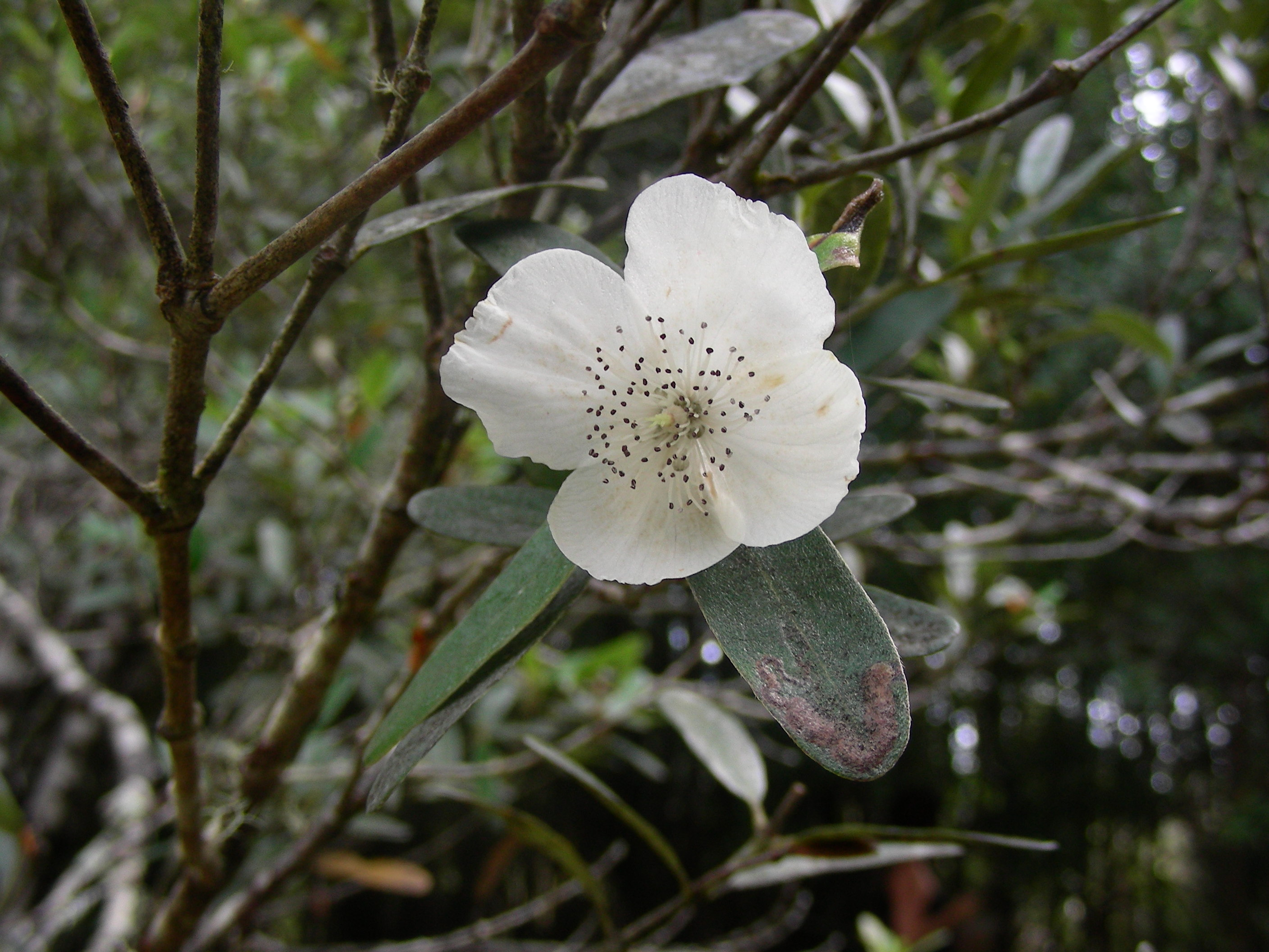 Eucryphia lucida Leatherwood, a flower and branches. Day 5 Overland Track, Cradle Mountain - Lake St Claire National Park, Tasmania. 17 April 2013 by Doug Beckers.